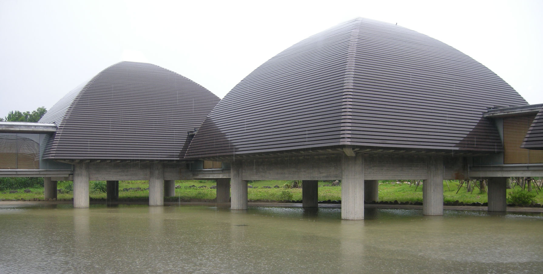 Isson Tanaka memorial art museum, Amami, Kagoshima, Japan